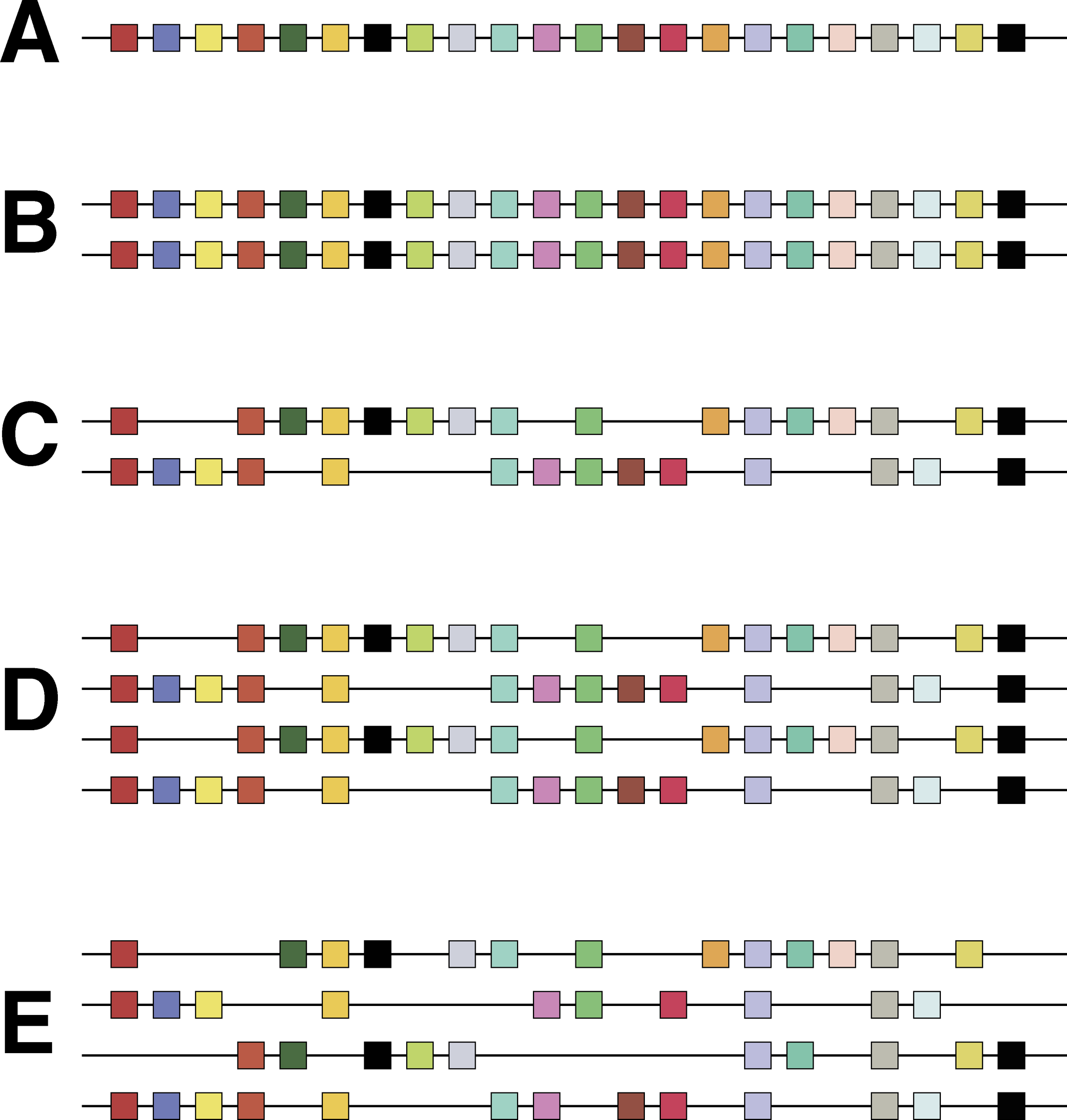 Pattern Predicted for the Relative Locations of Paralogous Genes from Two Genome Duplications (A) Representation of a hypothetical genome that has 22 genes shown as colored squares. (B) A genome duplication generates a complete set of paralogs in identical order. (C) Many paralogous genes suffer disabling mutations, become pseudogenes, and are then lost. One could imagine this condition being evidence of a single round of genome duplication followed by significant gene losses. (D) A second genome duplication recreates another set of paralogs in identical order, with multigene families that retained two copies now present in four, and those that had lost a member now present in two copies. (E) Again, many paralogous genes suffer disabling mutations, become pseudogenes, and are then lost. Of course, unrelated gene duplications and transpositions can occur. Even though this leaves only a few four-member gene families, the patterns of 2- and 3-fold gene families unite, in various combinations, all four genomic segments, revealing that the sequential duplications had been of very large regions, in this case all or nearly all of this hypothetical genome.